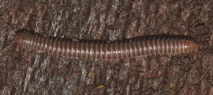 Unciger foetidus (Julida, Julidae), a millipede from southern Germany. Source: Spelda, J., H.S. Reip, U. Oliveira–Biener, R.R. Melzer. Barcoding Fauna Bavarica: Myriapoda – a contribution to DNA sequence-based identifications of centipedes and millipedes (Chilopoda, Diplopoda) 2011 ZooKeys 156: 123–139